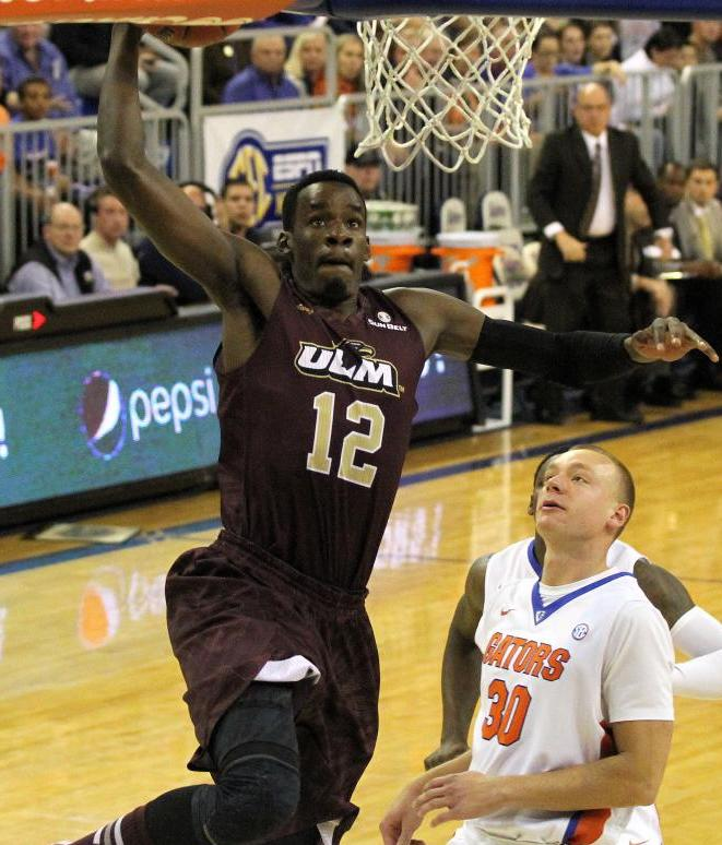 Tylor Ongwae Dunks for 2 of his 19 Points Louisiana-Monroe Basketball in Gville 2014/11/21